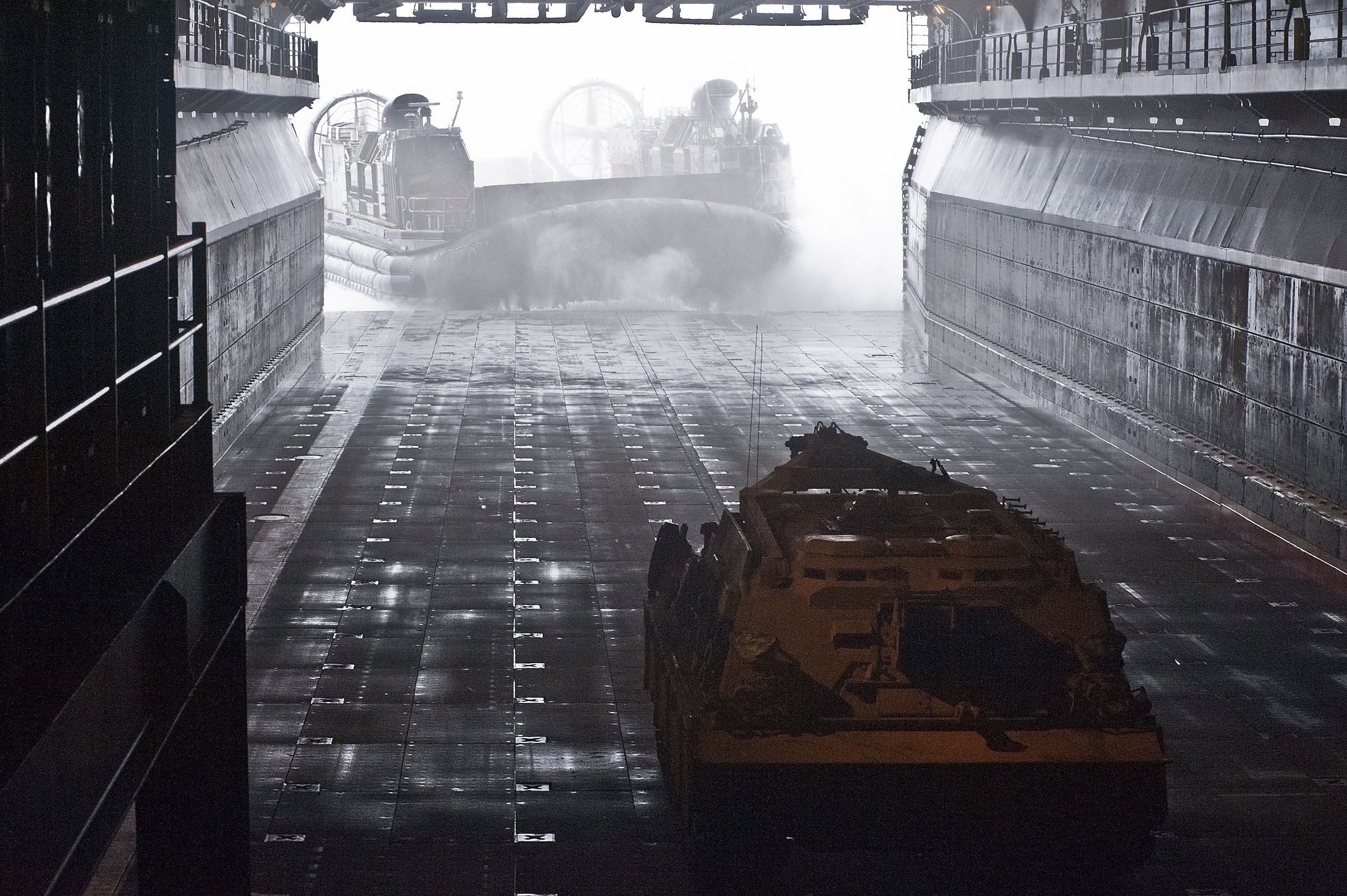 PACIFIC OCEAN (Aug. 15, 2011) A landing craft, air cushioned (LCAC) exits the well deck of the amphibious assault ship USS Makin Island (LHD 8). Makin Island is the flagship for Amphibious Squadron (PHIBRON) 5 and the 11th Marine Expeditionary Unit (11th MEU) and is underway for PHIBRON-MEU Integrated Training (PMINT) in preparation for the ship's first operational deployment. (U.S. Navy photo by Mass Communication Specialist 2nd Class Alan Gragg/Released)